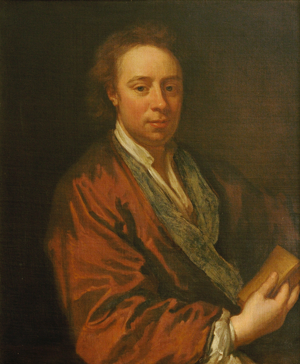 A 1689 76 x 63.5 cm oil-on-canvas portrait painting of Adrian Beverland by Godfrey Kneller held at the Bodleian Libraries